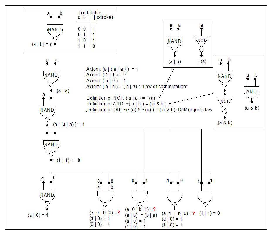 Drawn by wvbailey in Autosketch, imported into Acrobat and exported as .png